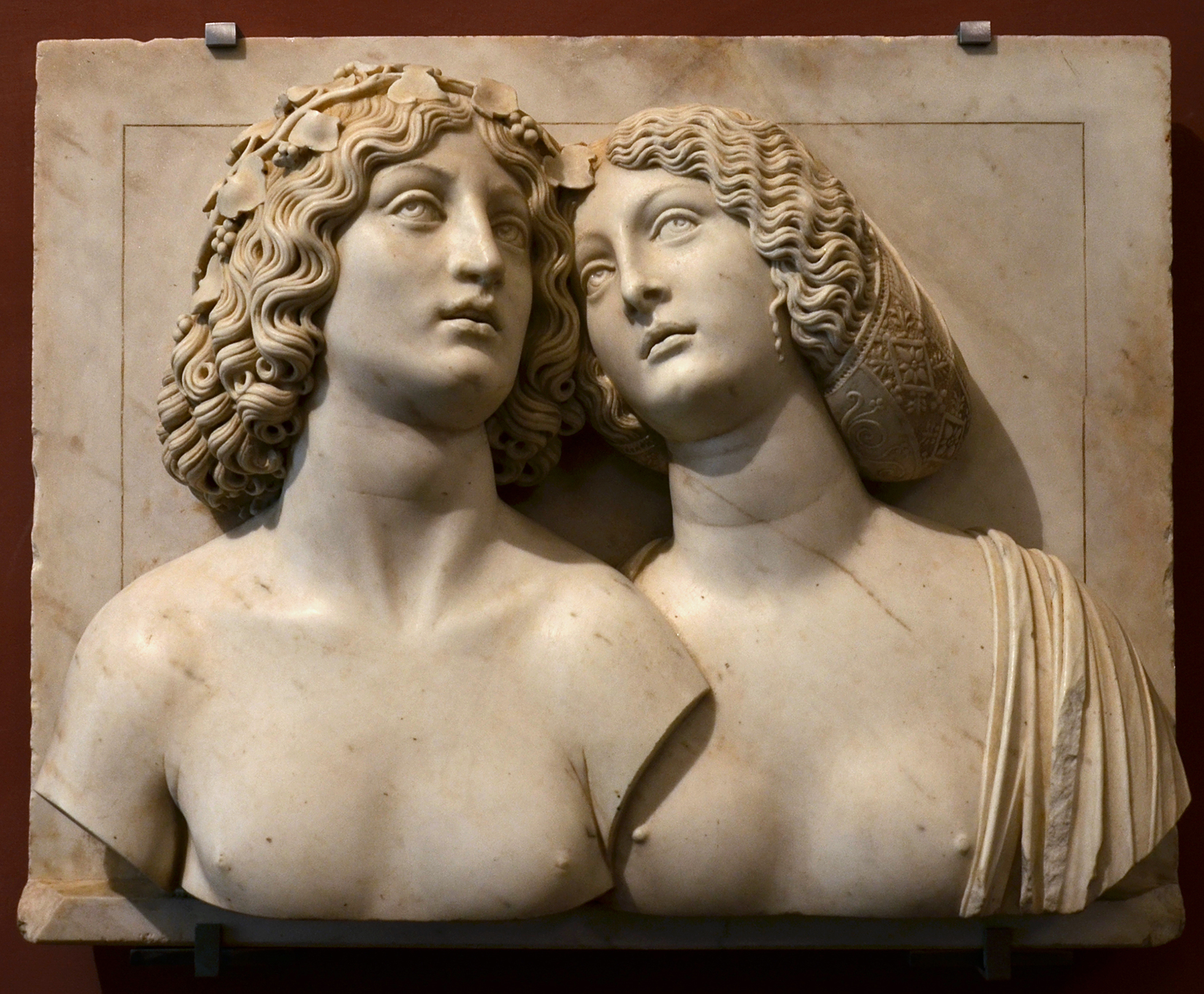 Young couple, marble relief by Tullio Lombardo, Venice, circa 1505-1510.